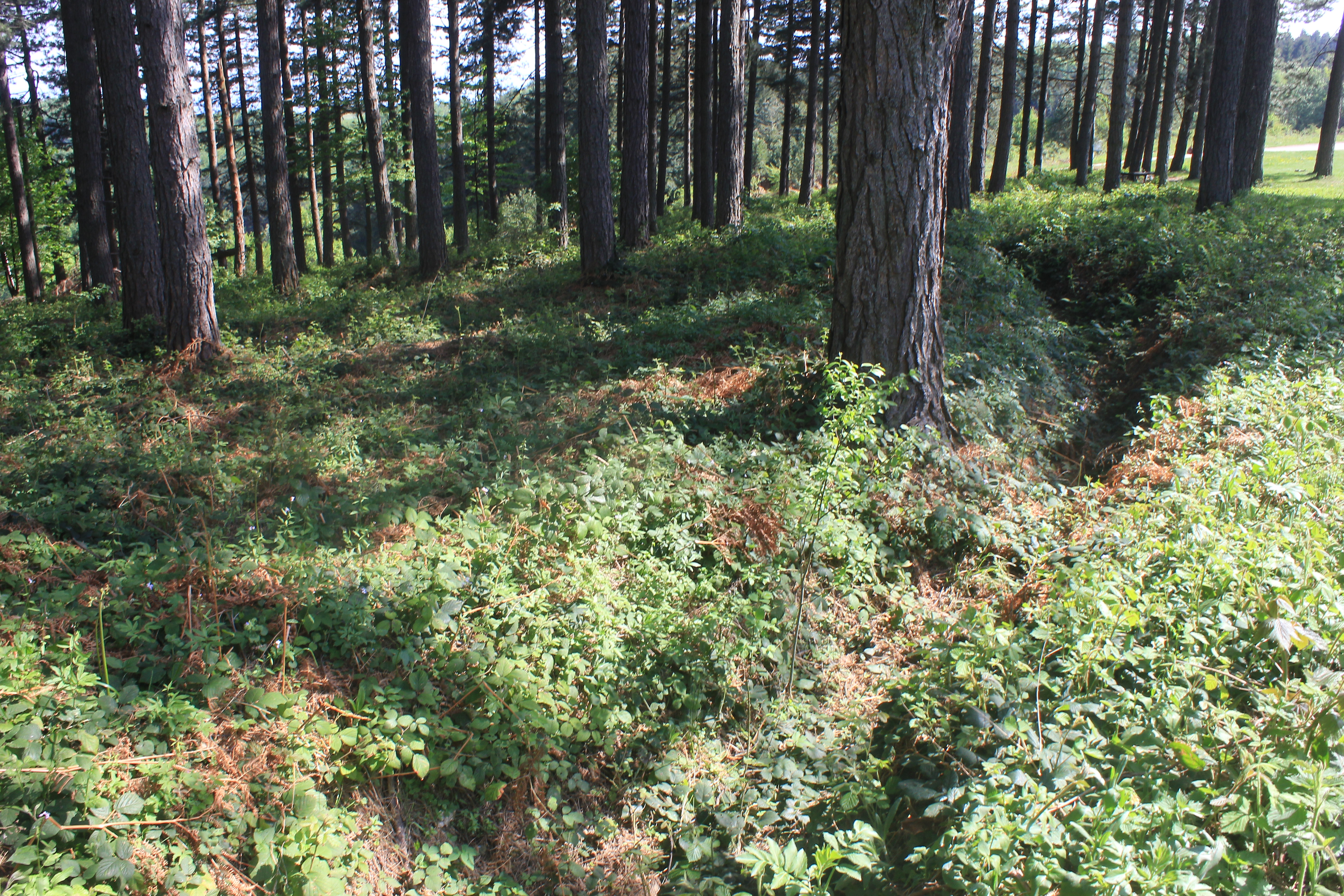 The remain of Serbian WW1 trench at Mačkov Kamen